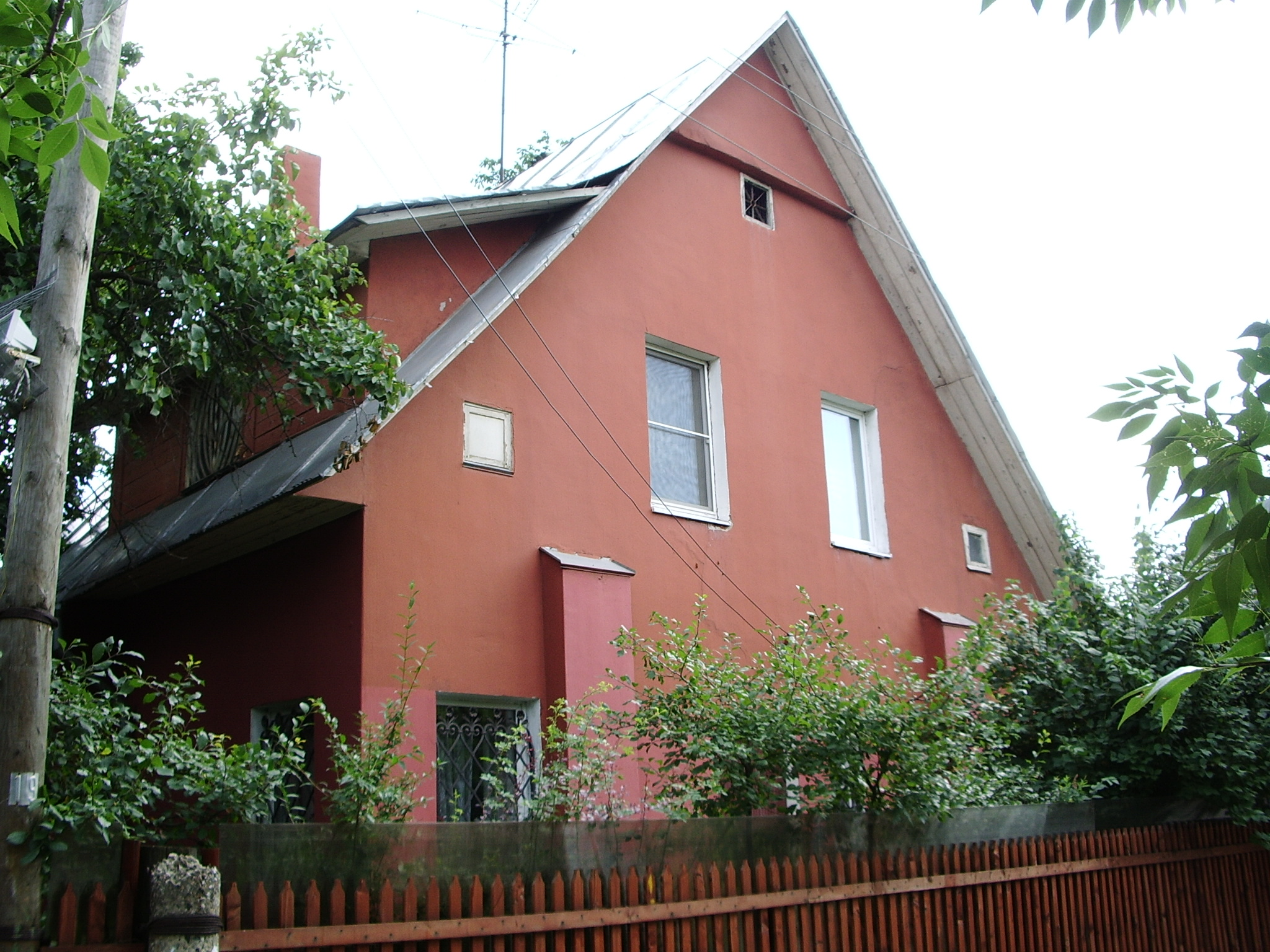 Vrubelja street 7. The Rolan Bykov's house. Sokol settlement in Moscow.